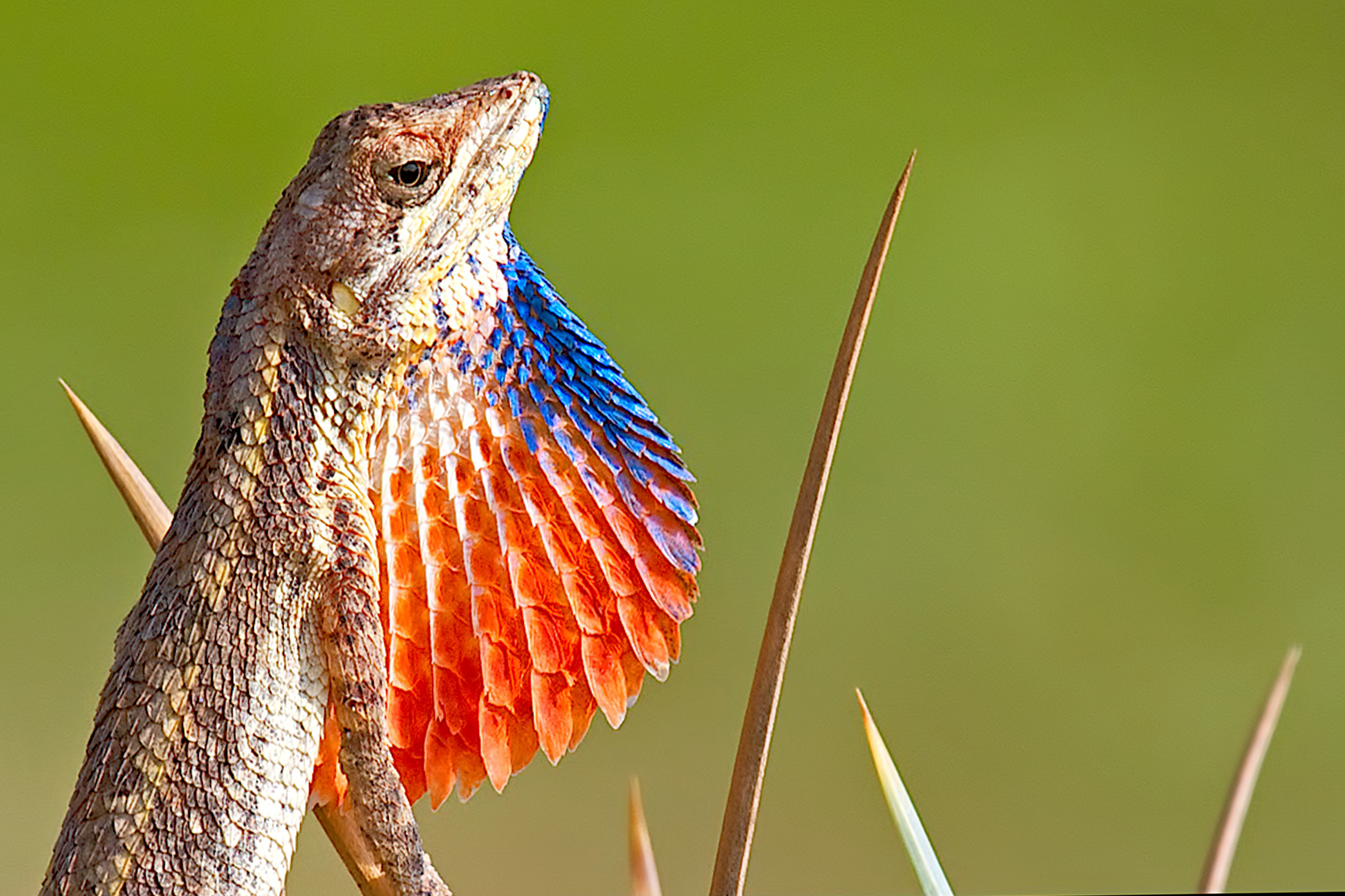 Male in display